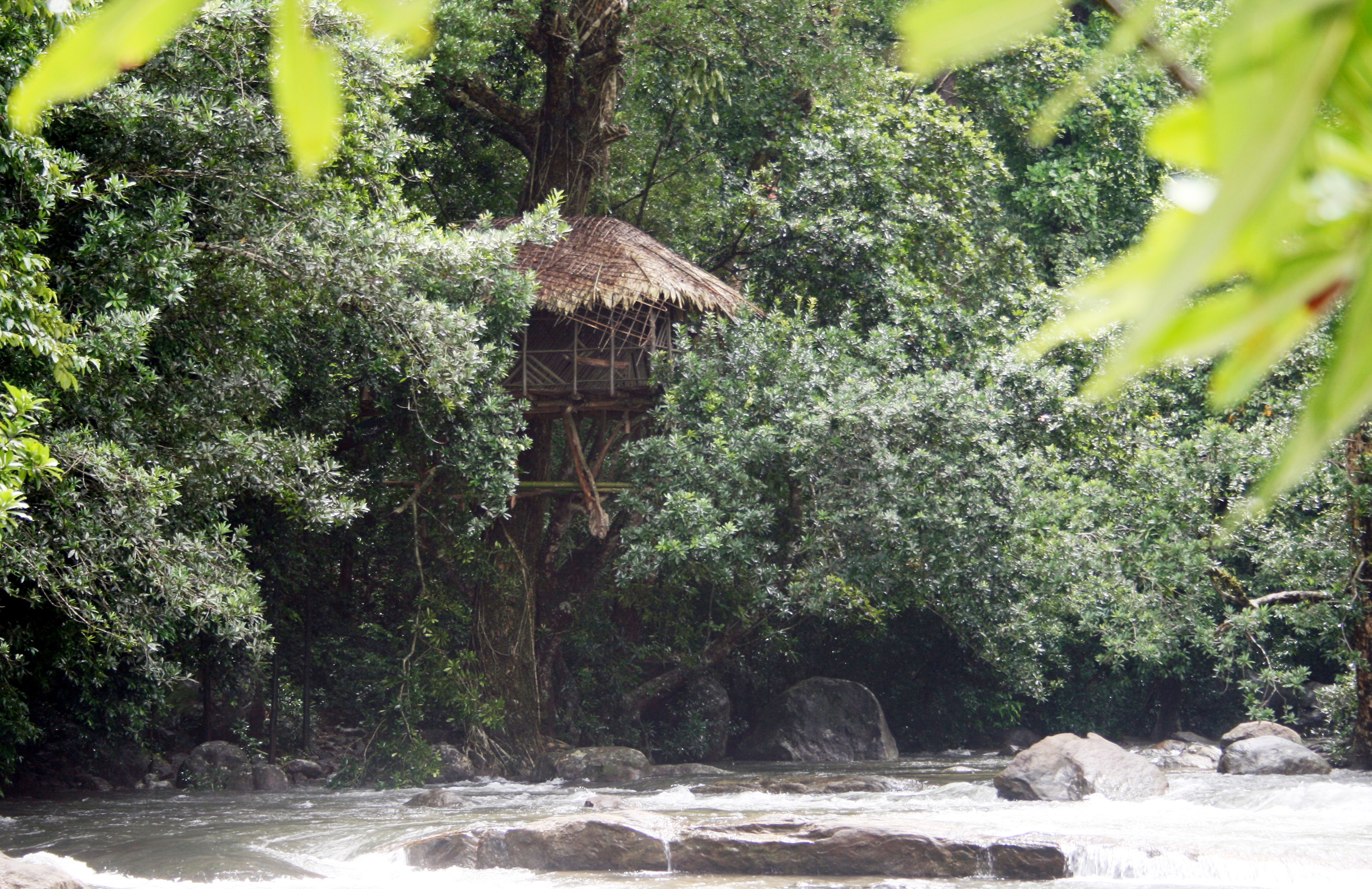 This house on Tree is at Thommankuthu, in Idukki district, Kerala.